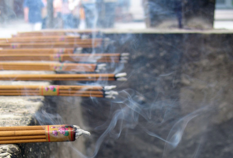 Shanghai, Longhua Temple incense